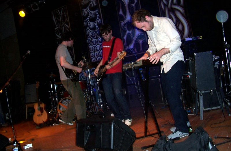 Wintersleep performing at The Wave in PEI, Canada.